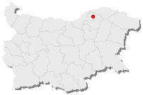 Map of Bulgaria, the red point is the position of Kubrat.